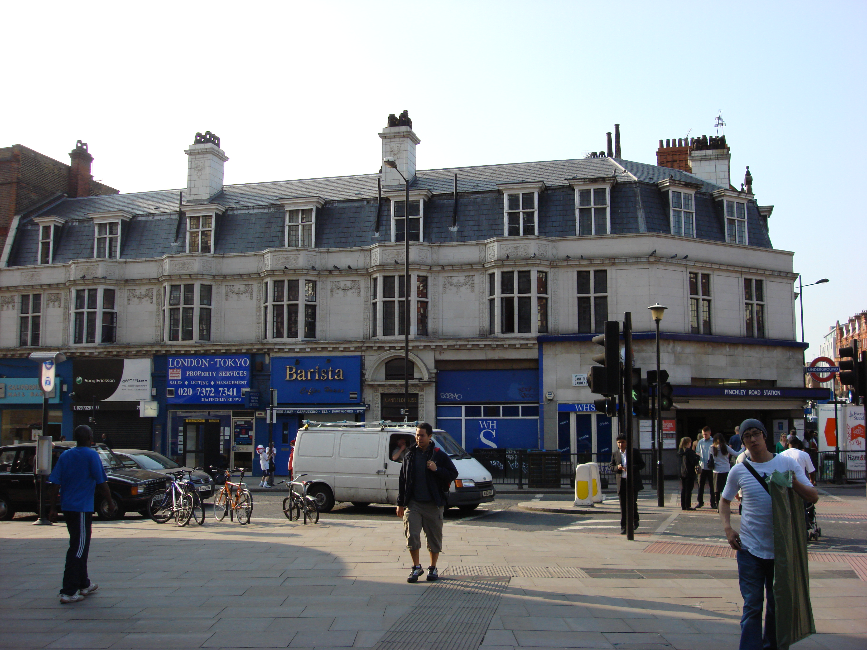 Finchley Road tube station This station was opened on 30 June 1879